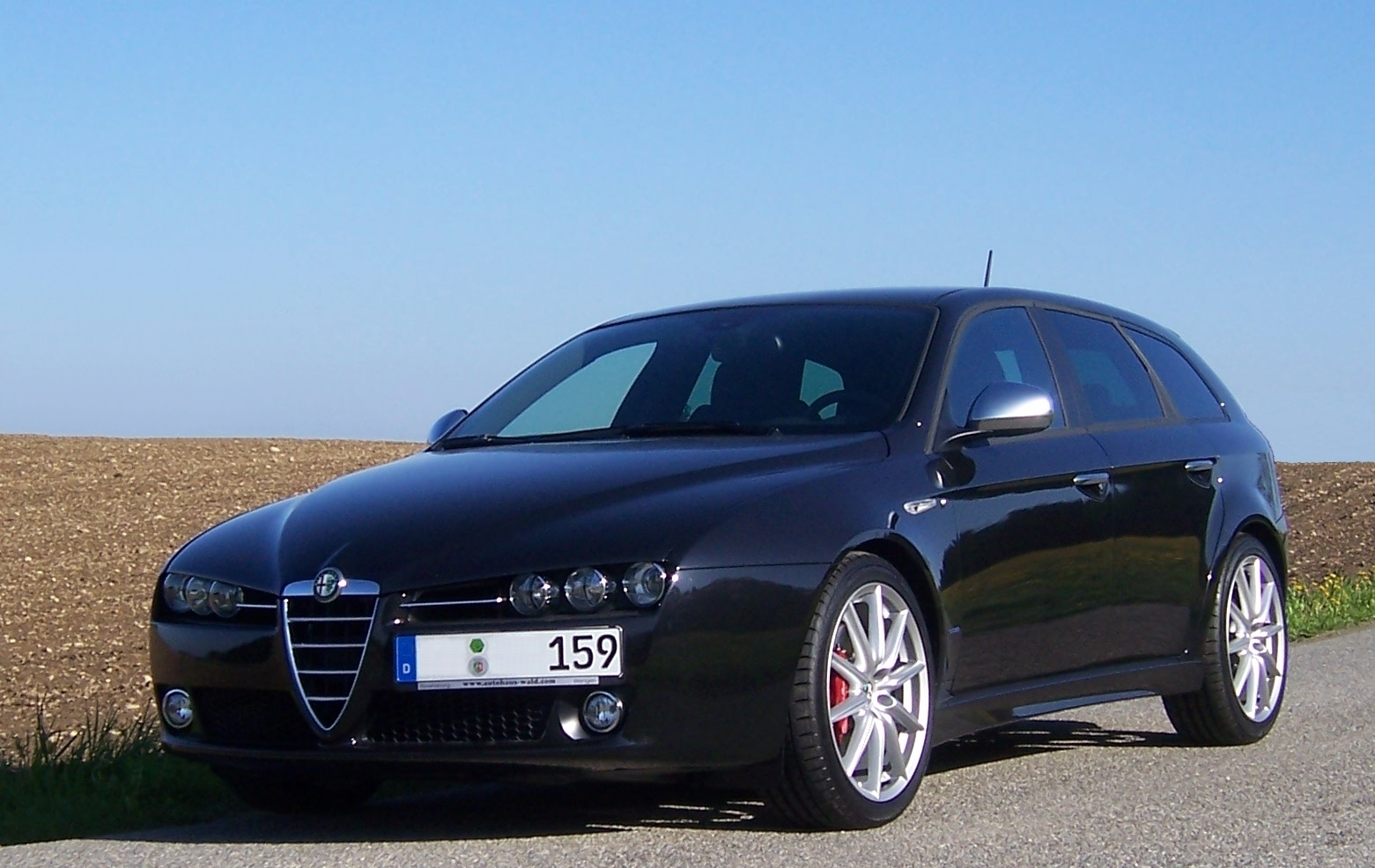 Alfa Romeo 159 Sportwagon Serie 2 2.4 JTDM 20V Q-Tronic ti, build 2009-04-20